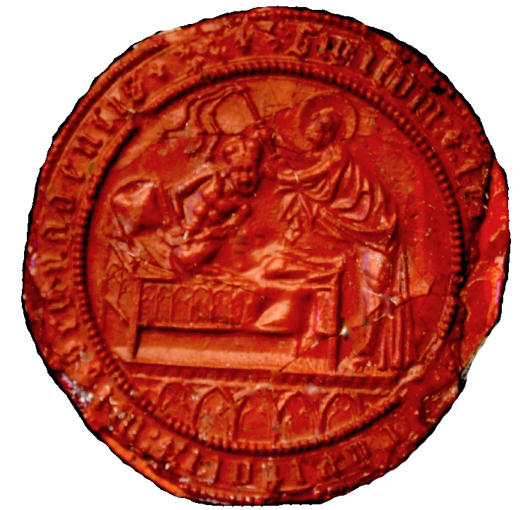 The lesser seal of the Prague Vyšehrad Chapter, from 1490